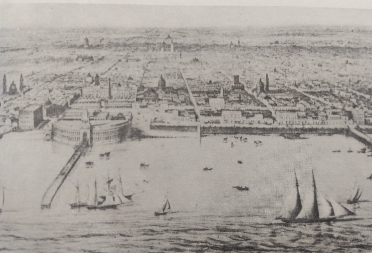 Dirección General de Aduanas (Argentina)